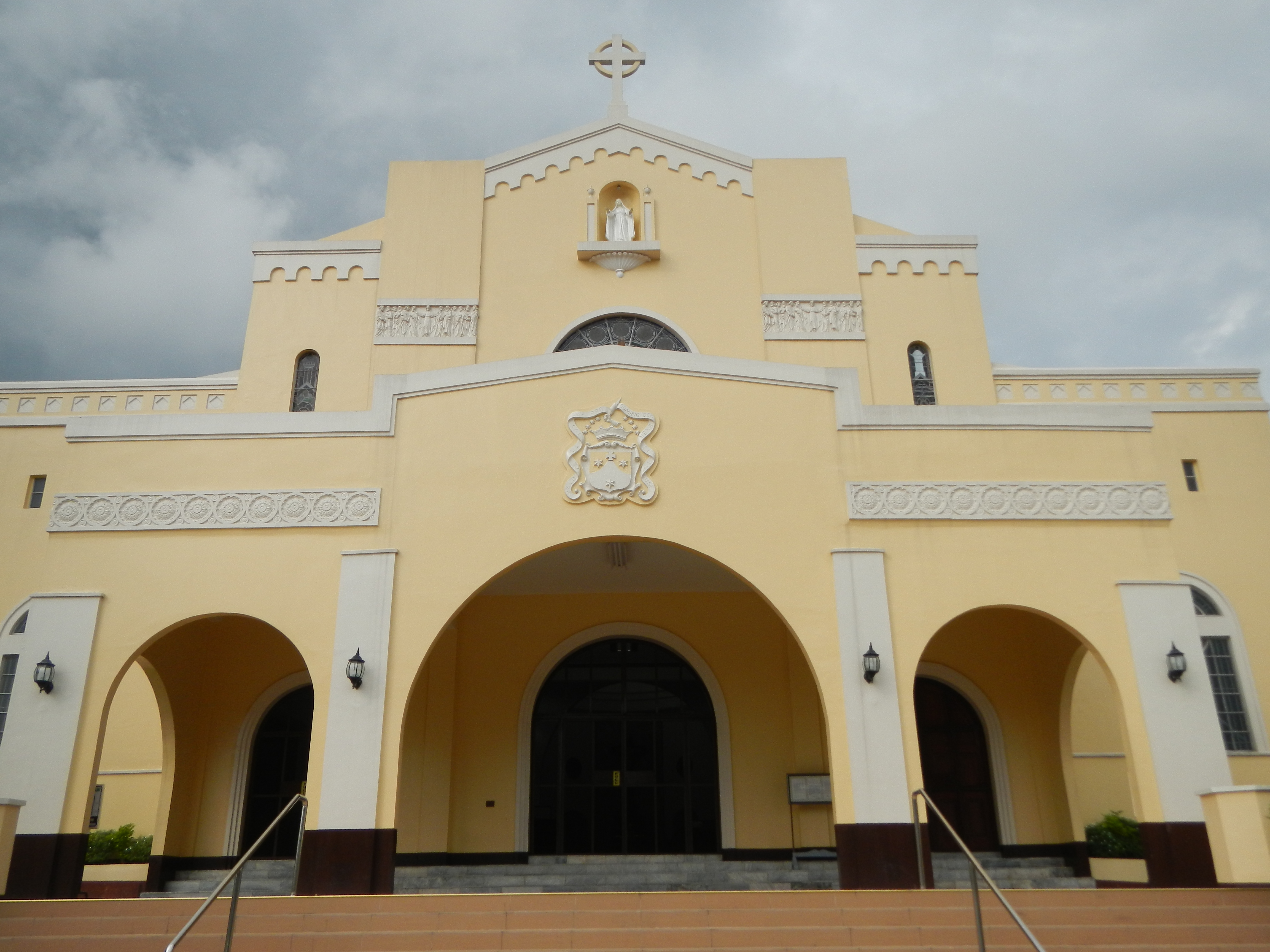 Our Lady Mediatrix of All Graces [1] Our Lady of Mediatrix of All Graces (Spanish: Nuestra Senora de la Medianera de toda gracia